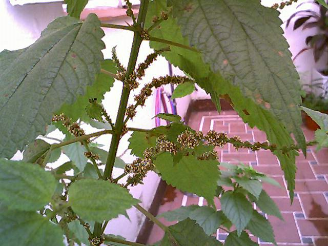 Calea zacatechichi flowering